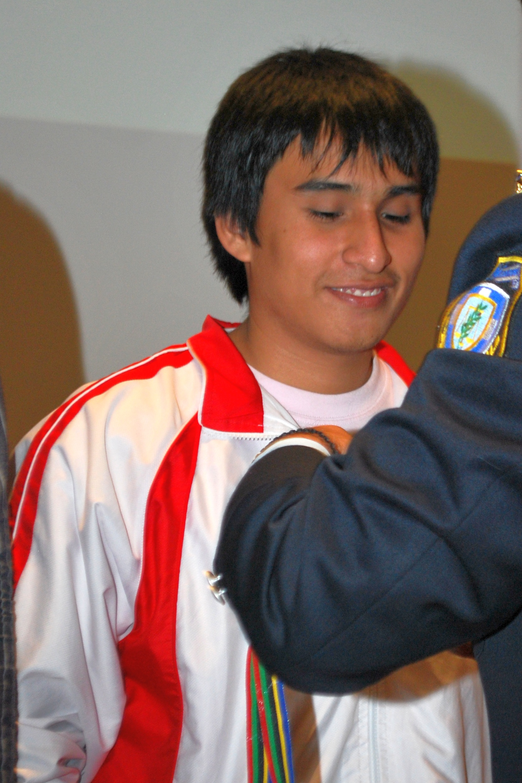 IM Cristhian Cruz, World Youth Chess Championship, Porto Carras 2010.